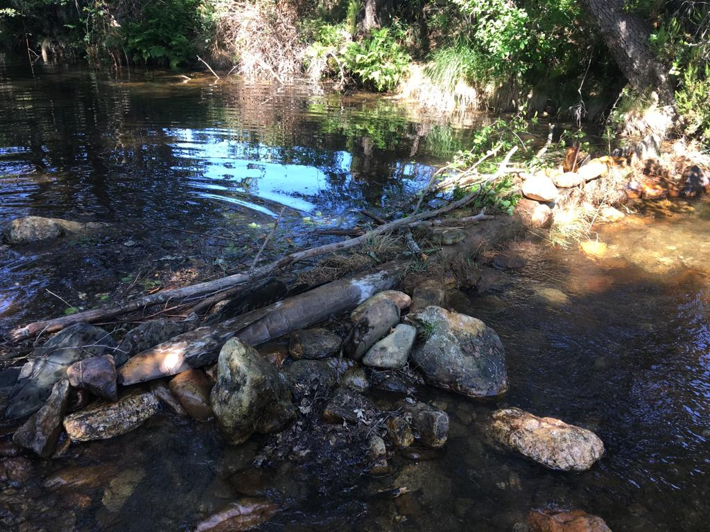 Restauración presa tradicional en Valdavido